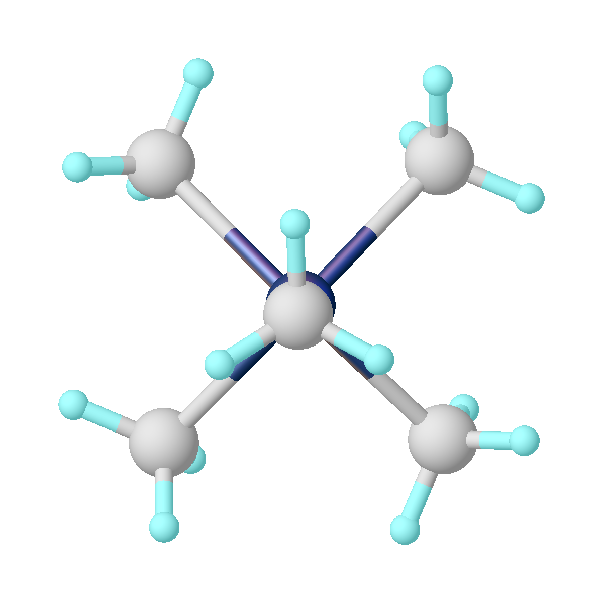 a single rotamer of MoMe5 from doi 10.1039/b000987n